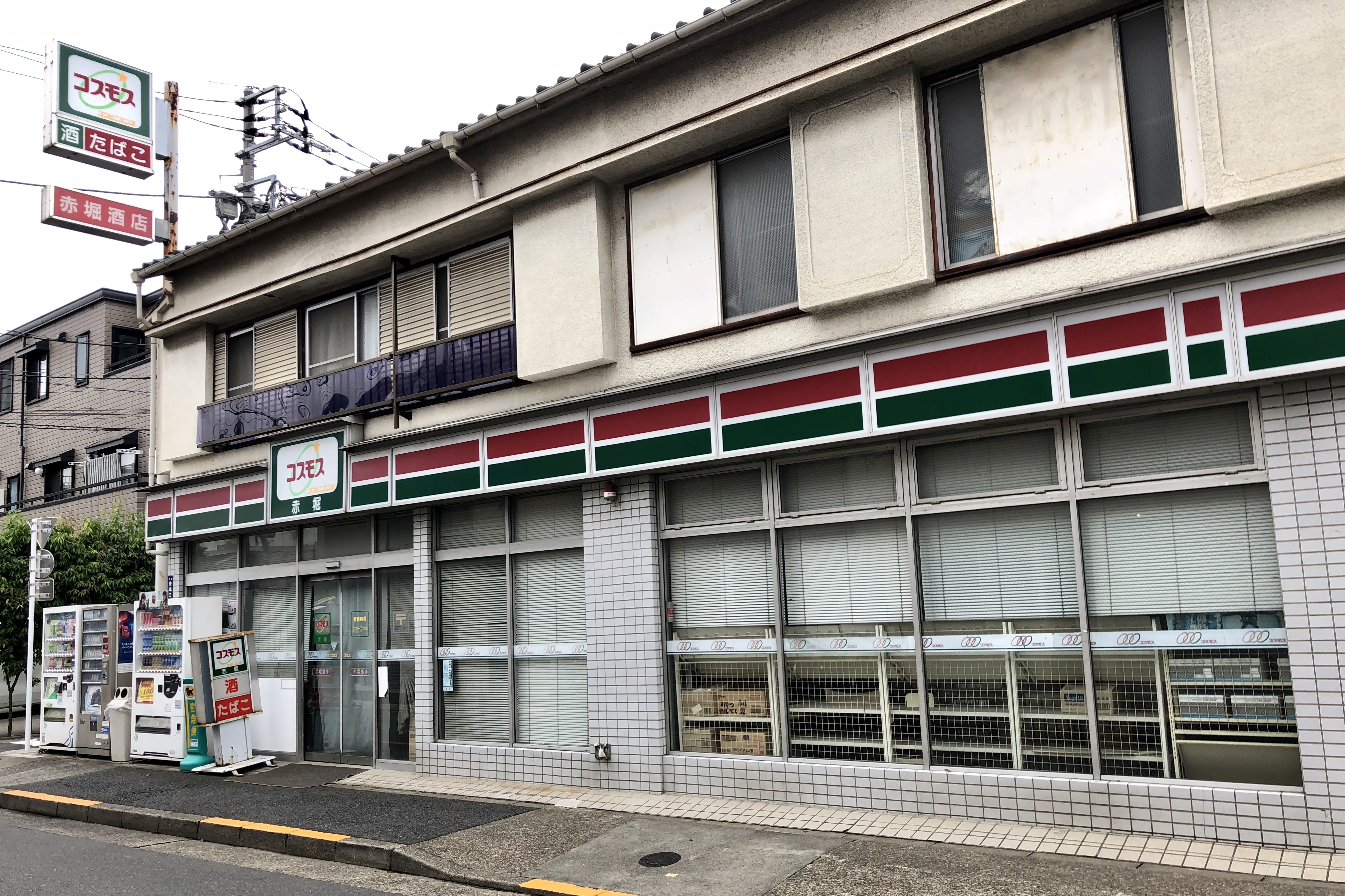 Kosmos(convenience stores) in Kita, Tokyo, Japan.